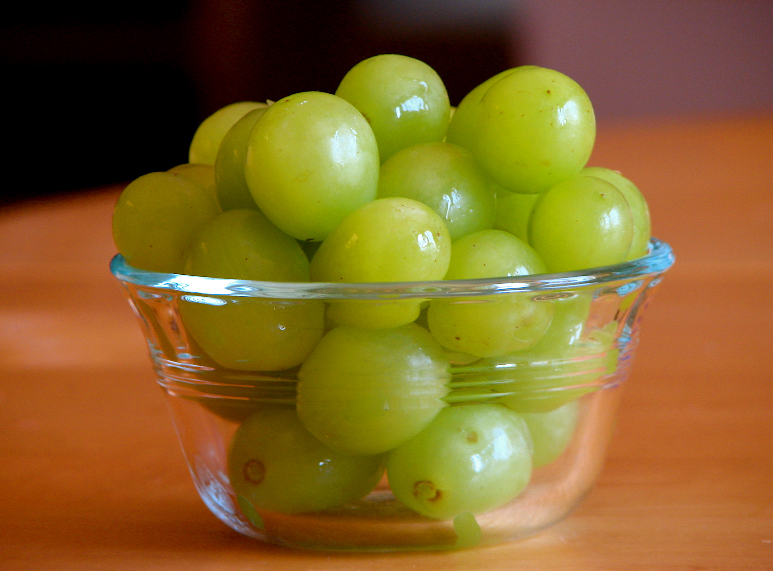 Some green grapes in a small, clear bowl.